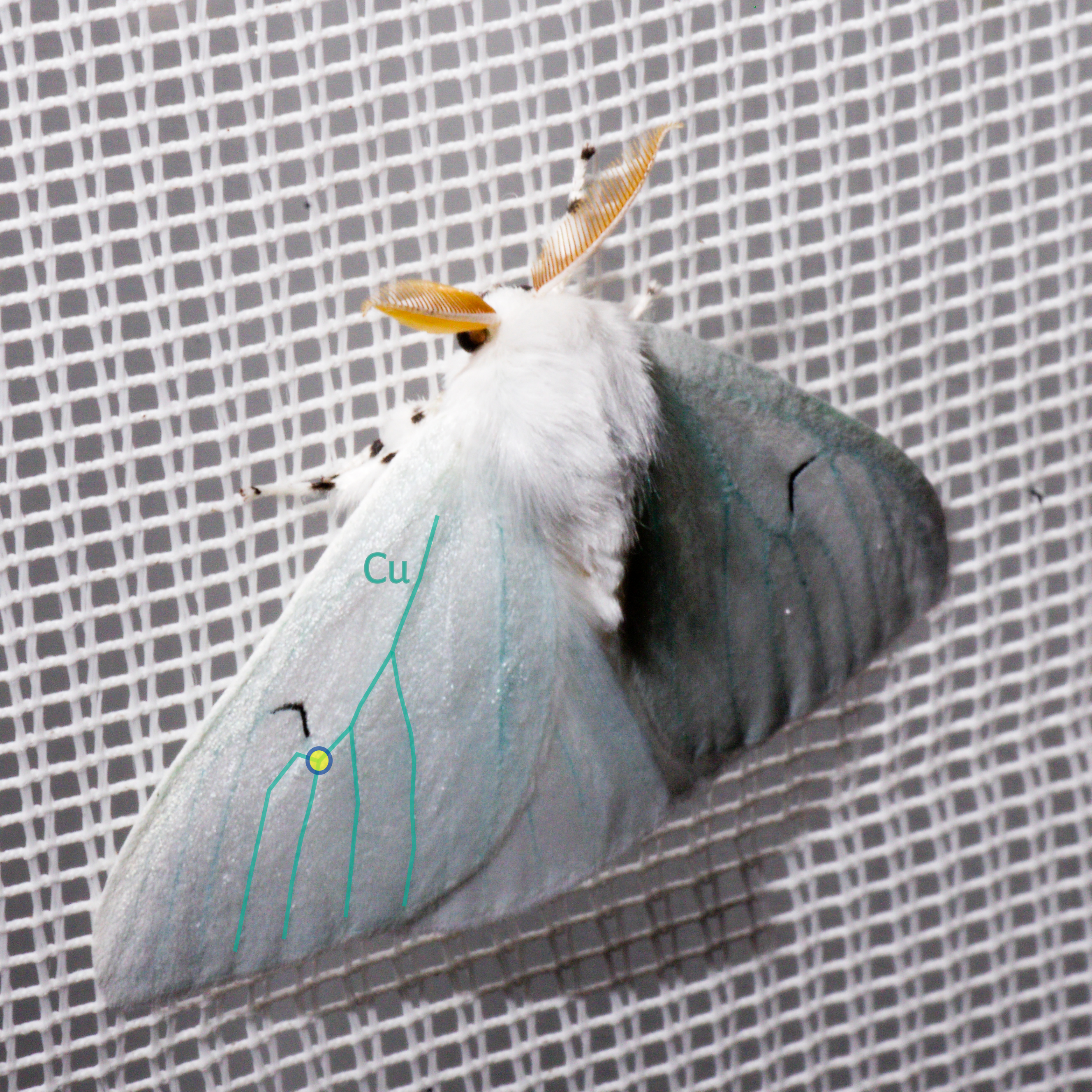 Erebidae moths of the Noctuoidea superfamily are characterized by a quadrifid wing pattern in contrast to Noctuidae which are trifin in general.